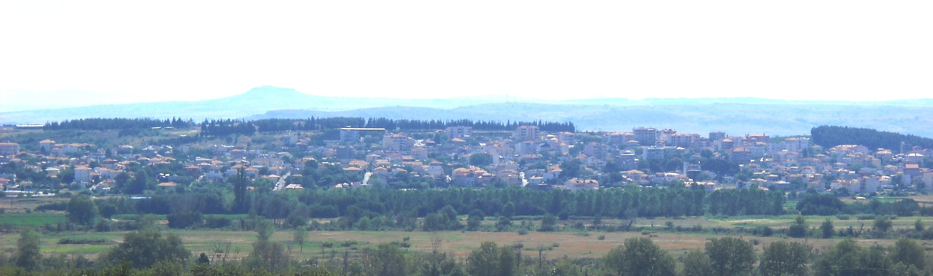 Polykastro from west view